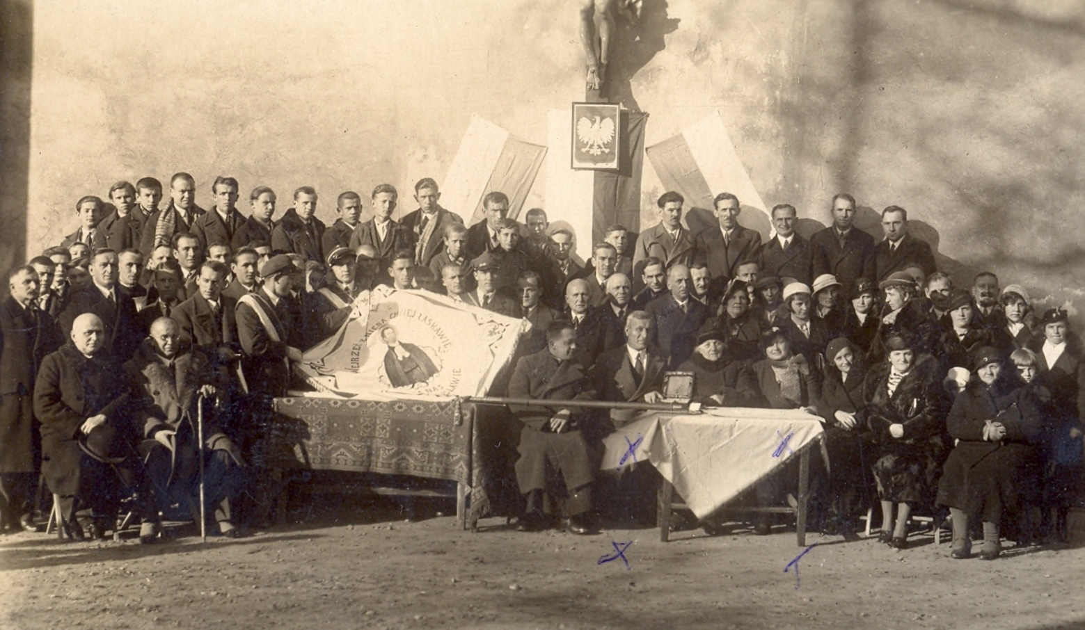 The blessing of Junior High School's banner. Photo made in 1934 in the photo studio in Oświęcim, which was closed down by Germans in 1939.